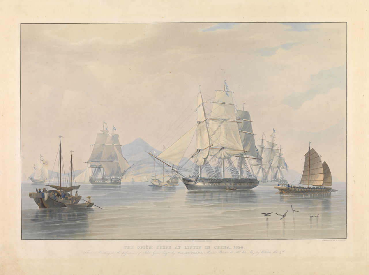 In the early 19th century, vast quantities of Opium were carried away on ‘scrambling dragons’ (p’a-lung) or ‘ast crabs’( k’uai-hsieh) at Lintin, outside the Bocca Tigris. The ships were typically armed to the teeth, crewed by fierce Tanka riverman. This image shows the Opium ships at Lintin.[1] ↑ NMM